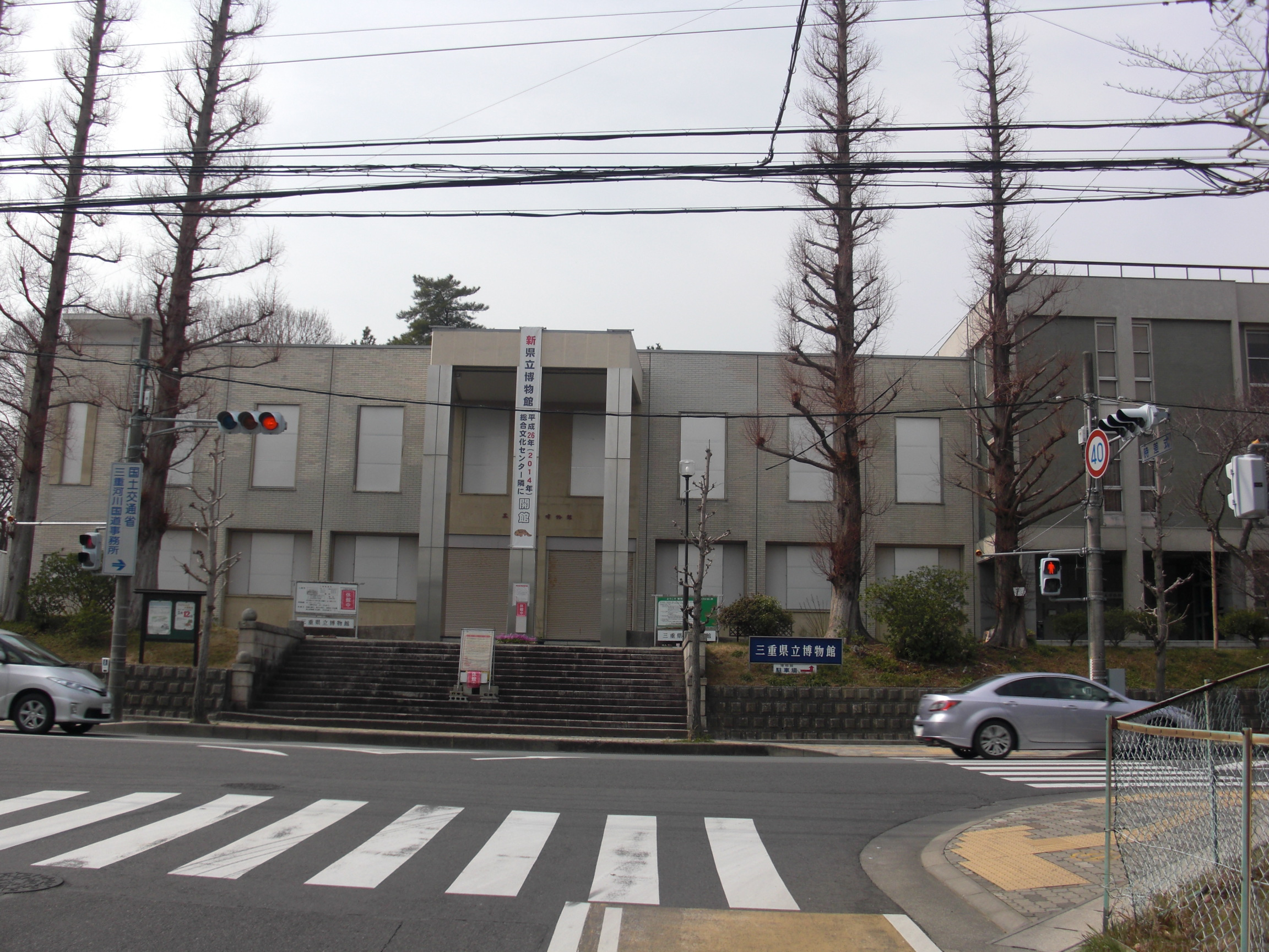 This is the Mie prefectural Museum, which is in Tsu, Mie, Japan.